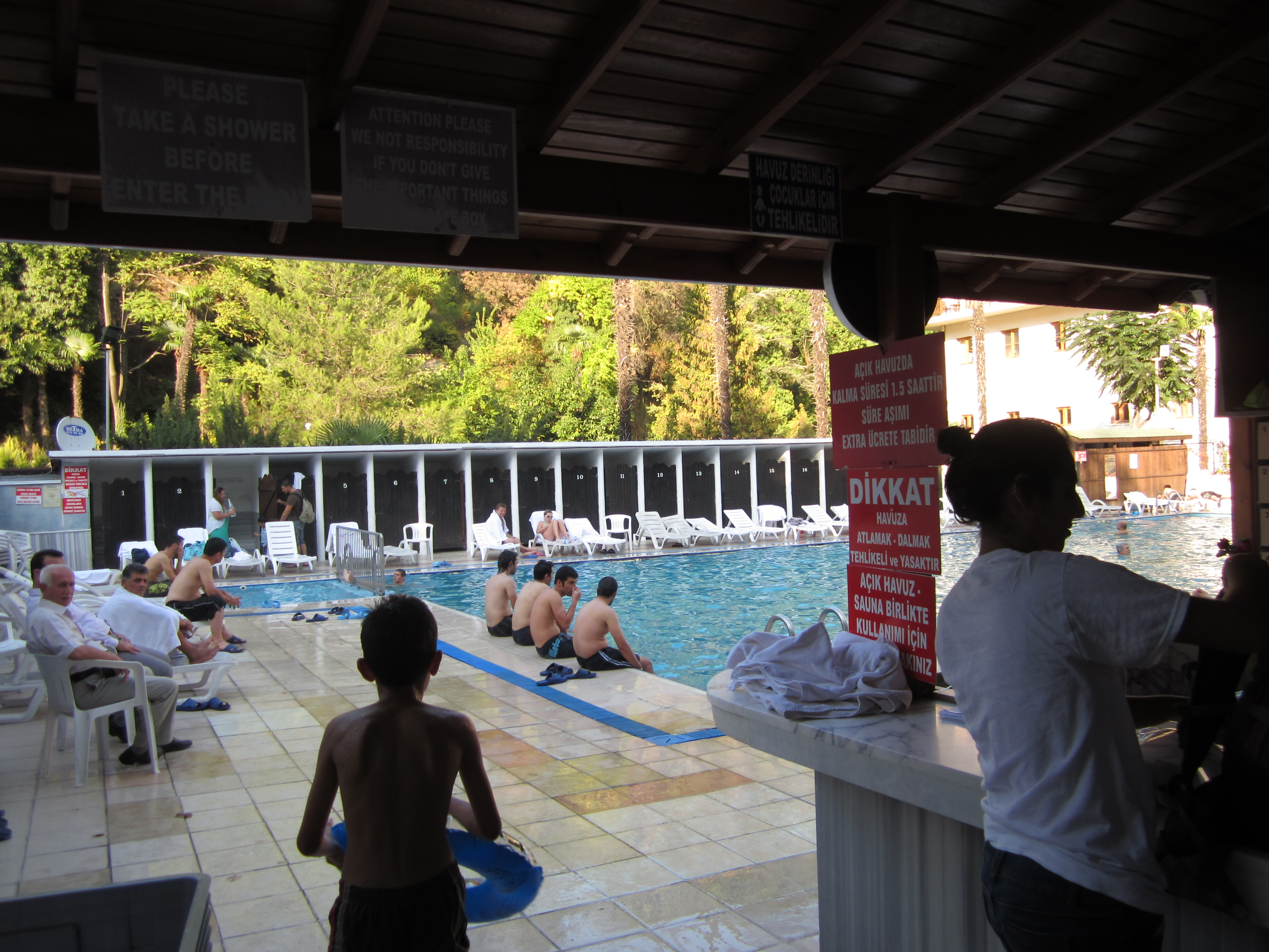 Termal's public swimming pool